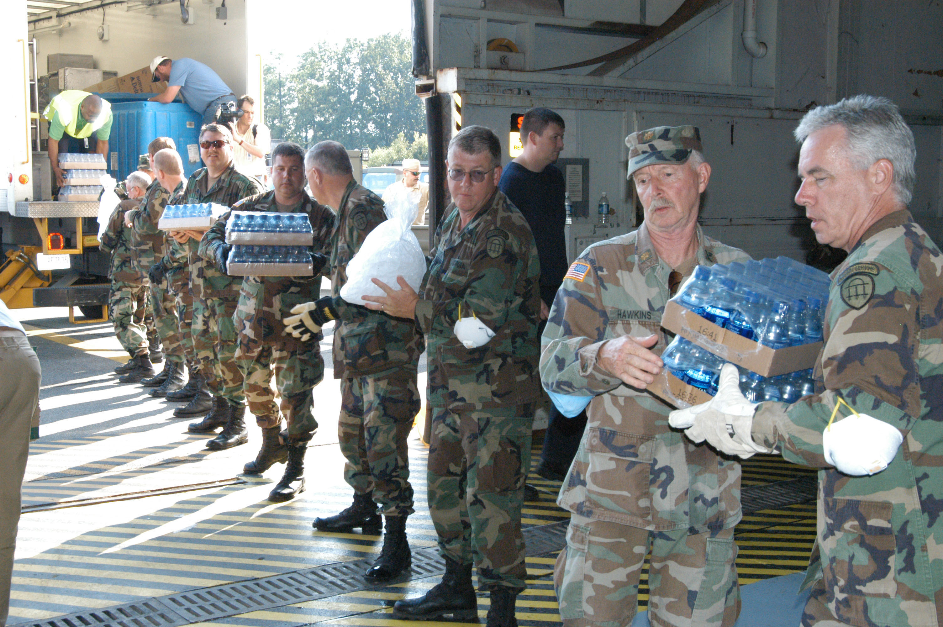 Marietta, Ga., September 4, 2005 -- Members of the Georgia Defense Force rapidly unload a supply of water and ice at Dobbins AFB in anticipation of a flight from New Orleans containing hurricane Katrina evacuees. Four Delta flights carrying Katrina evacuees are expected today and the Georgia Defense Force, in joint operation with the Army and Air Force National Guard, will provide security and labor resources. George Armstrong/FEMA